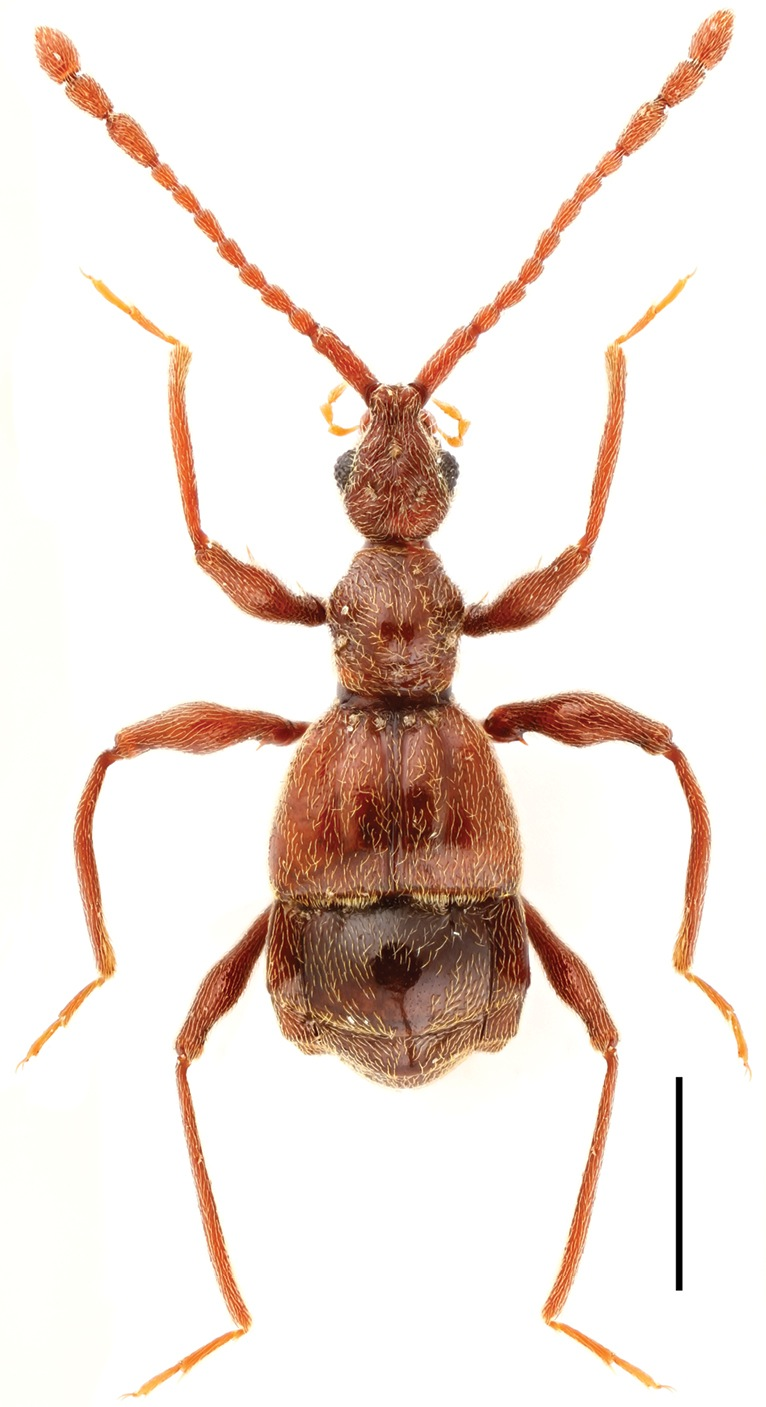 Male habitus of Pselaphodes daii. Scale: 1.0 mm.